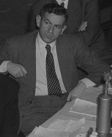 Samuel Mitja Rapoport (1912-2004), Austrian-American-German biochemist and professor of medical biochemistry at the Humboldt-University of Berlin; One of the most prominent scientists of the former German Democratic Republic (GDR)